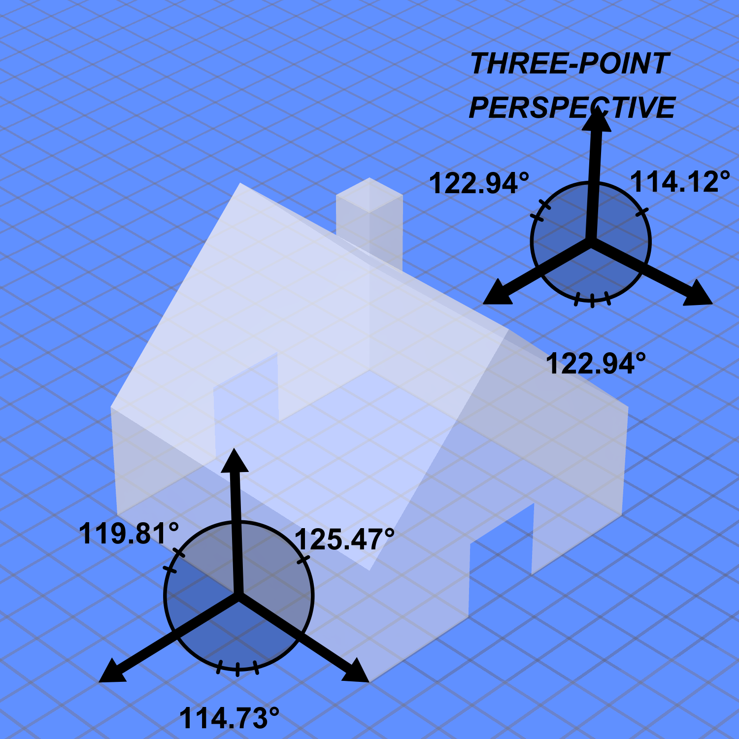 Perspective projection.